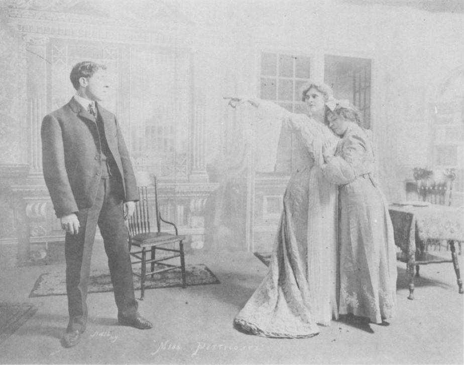 David W. Griffith and Kathryn Osterman in the play Miss Petticoats, 1903